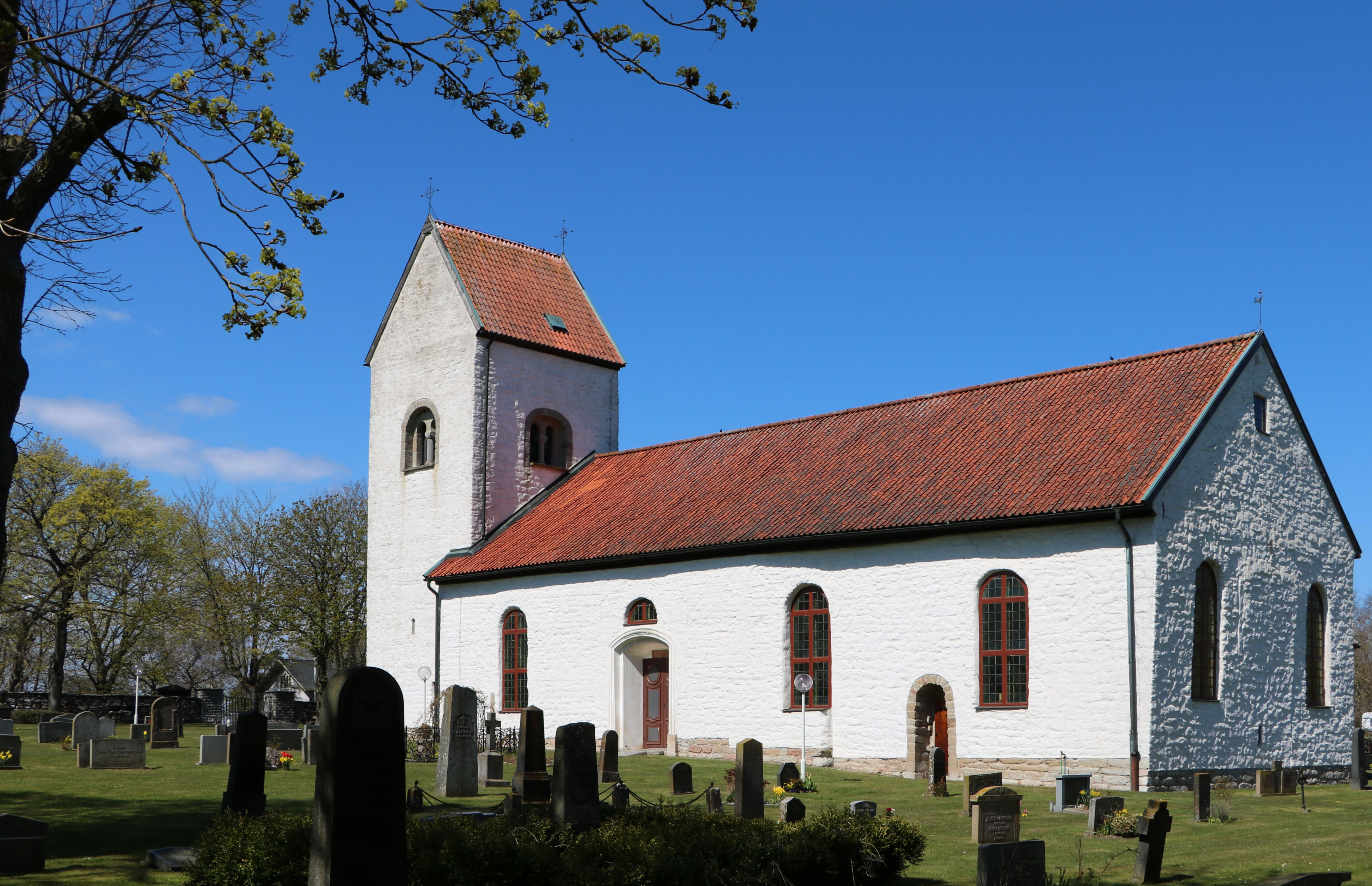 Långlöt Church. The exterior of the church from the southeast.